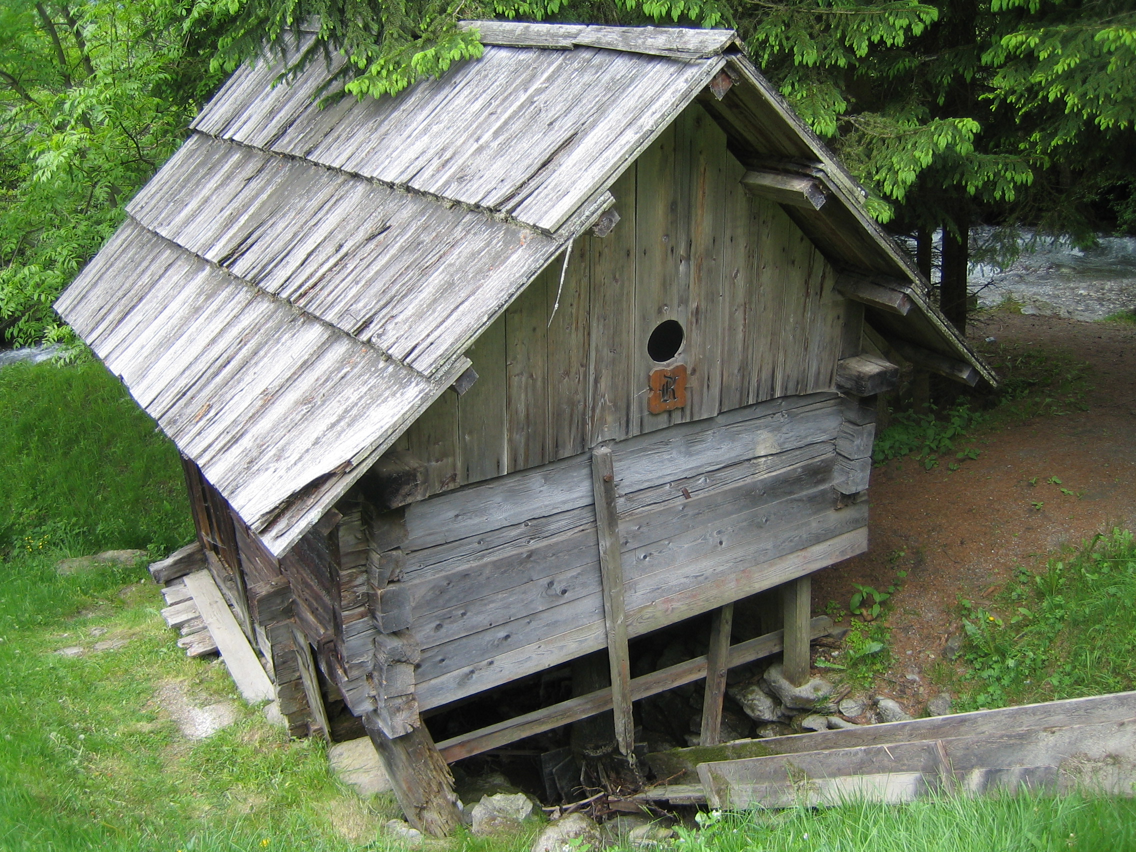 Mill in Bad Kleinkirchheim, Carinthia, Austria